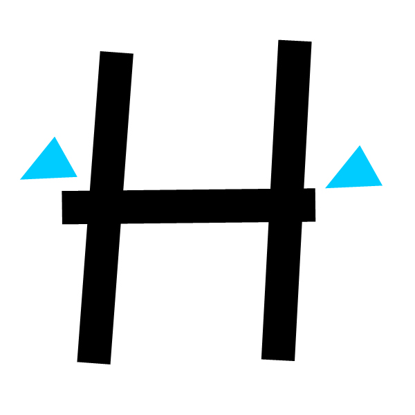 Internal interrupts of movement